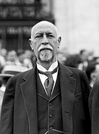 Diego Manuel Chamorro Bolaños (1861-1923), president of Nicaragua (1921-1923). Pan Amer. Union, 2nd Commercial Conference 1919